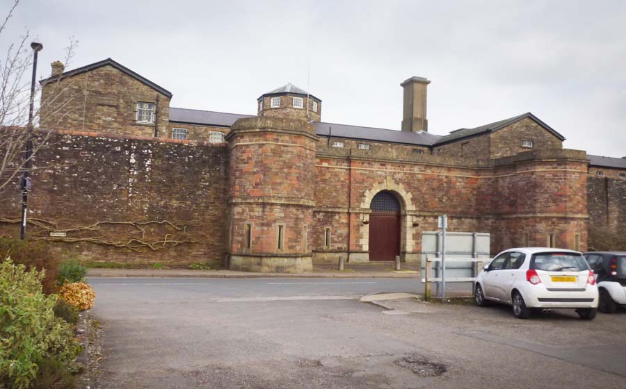 The red sandstone walls and gate of Usk Prison, Maryport Street, Usk, Monmouthshire, which sates from 1841/2 and is Grade II* heritage listed.